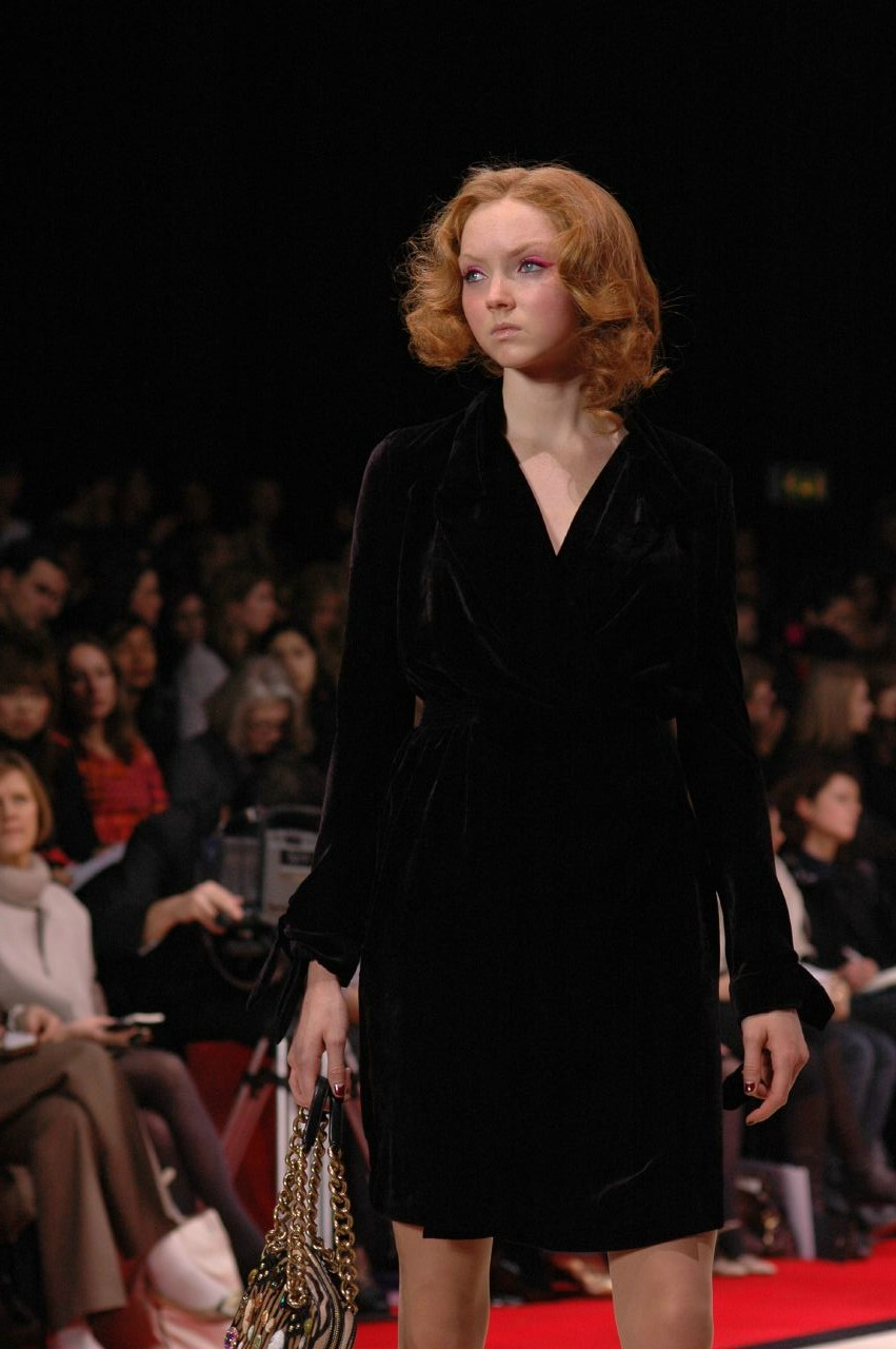 Lily Cole